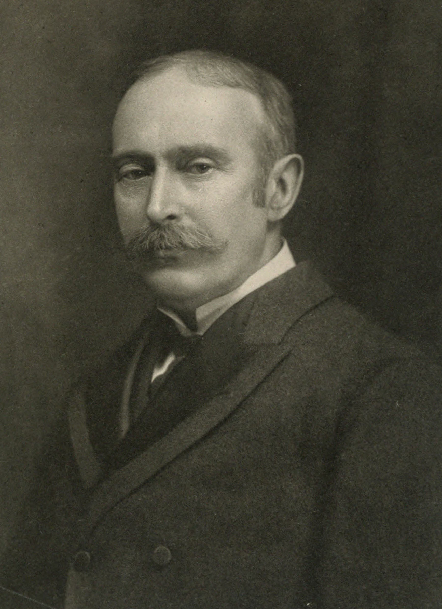 Sir John Macdonell, Vice-Chairman of the Executive Committee of the Society of Comparative Legislation